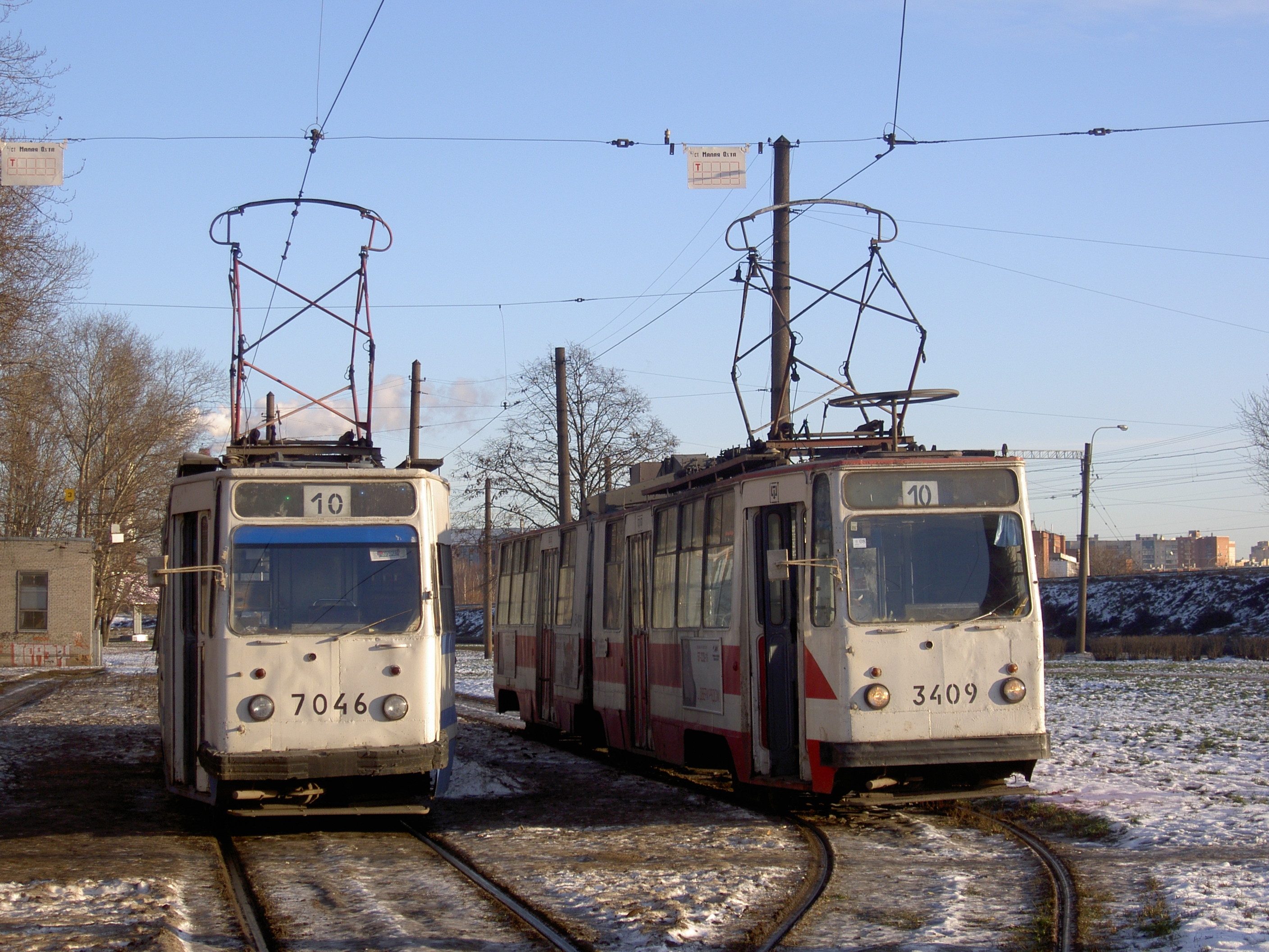 Malaya Okhta tram station